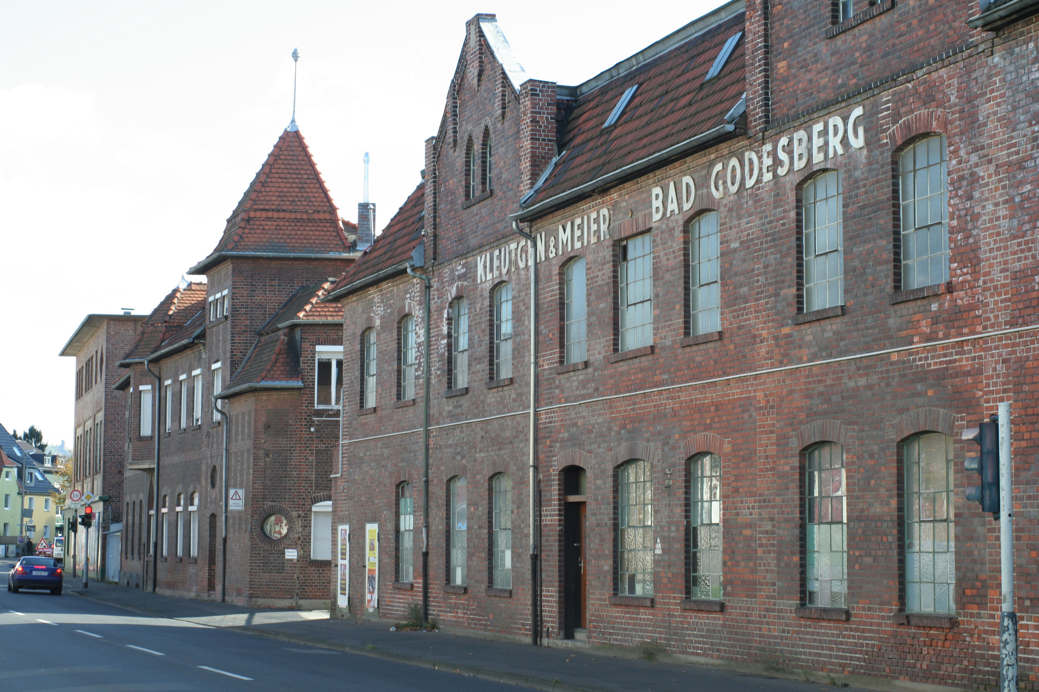 Front side of the Haribo factory in Bonn-Friesdorf with the old writing "Kleutgen & Meier"